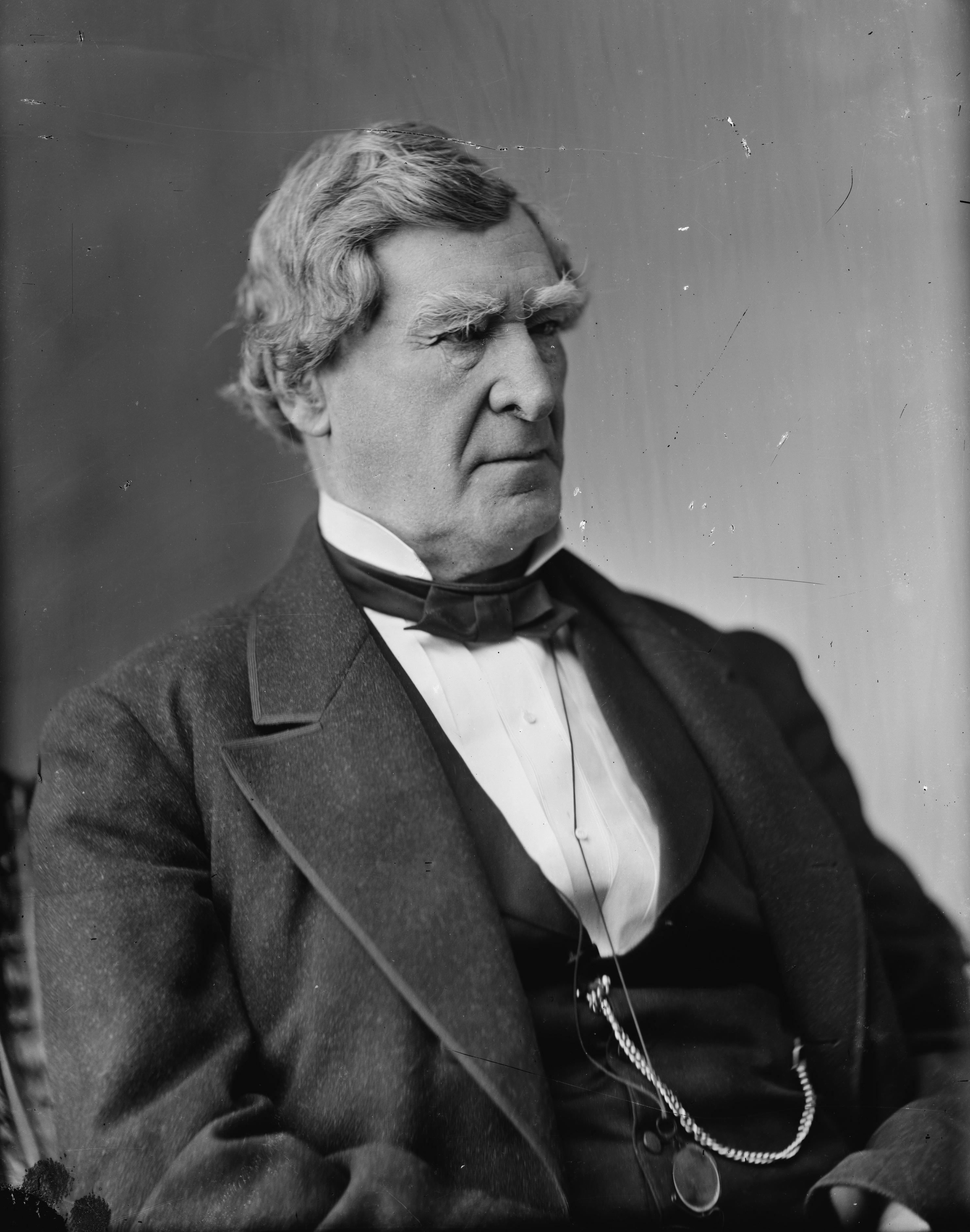 Jeremiah S. Black. Library of Congress description: "Black, Judge Jeremiah"